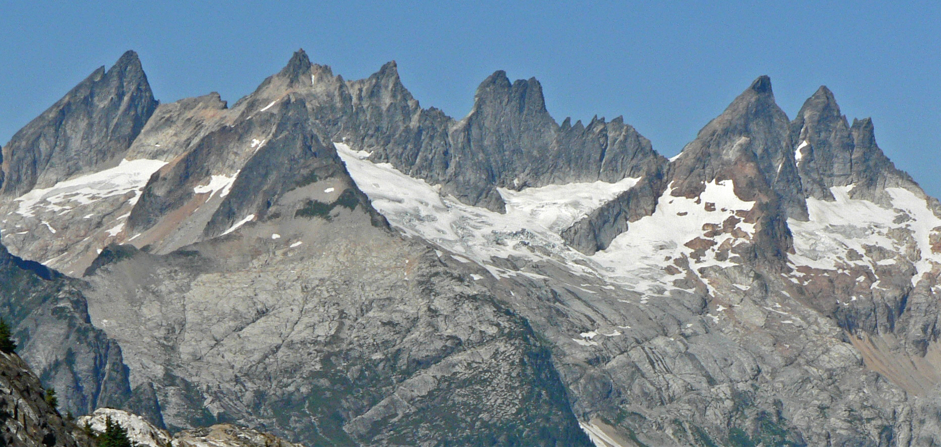 Mount Terror, Mount Degenhardt, Inspiration Peak, McMillan Spires are part of the southern Pickets